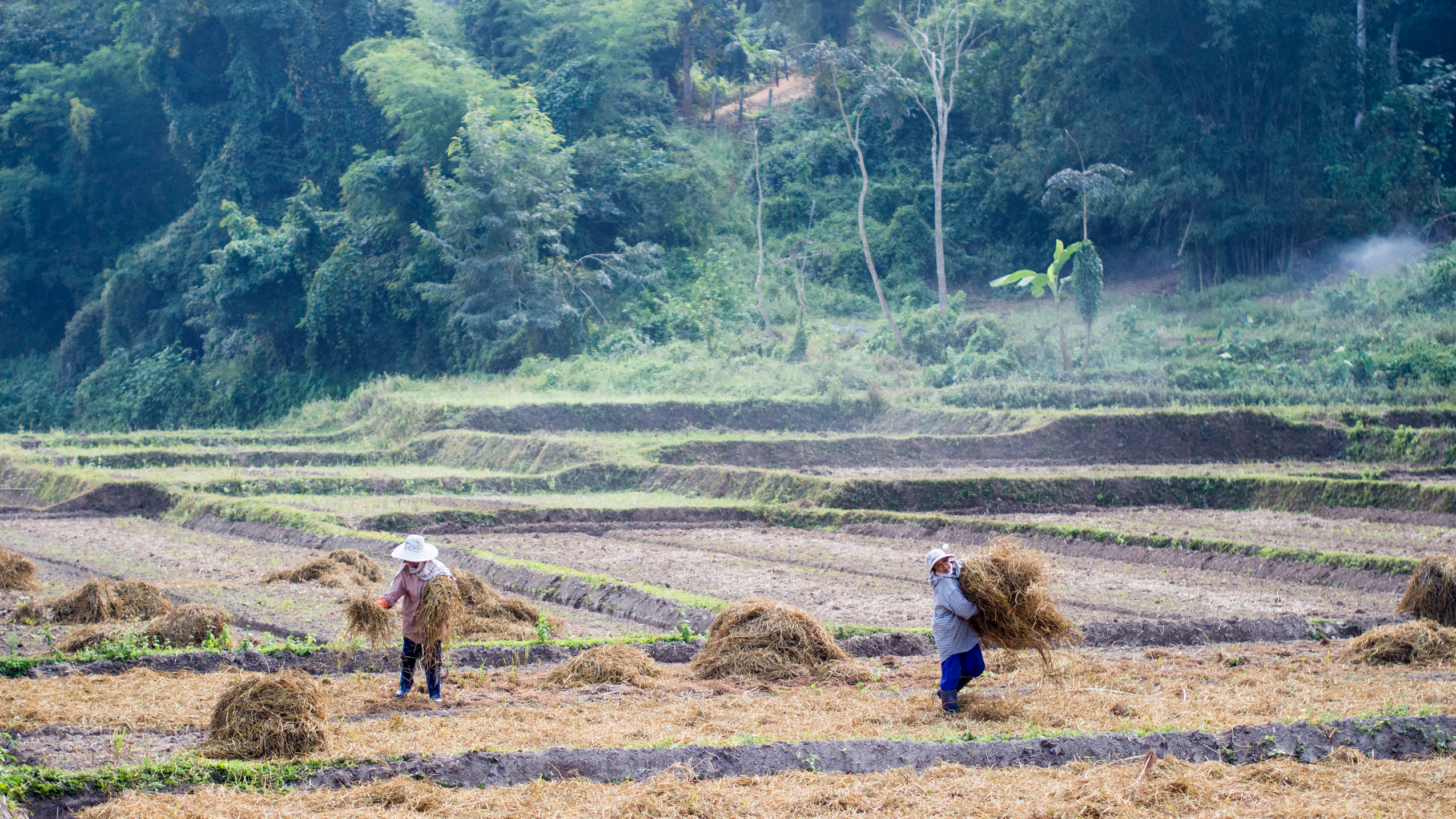 Straw is laid out over dry, empty rice paddies.